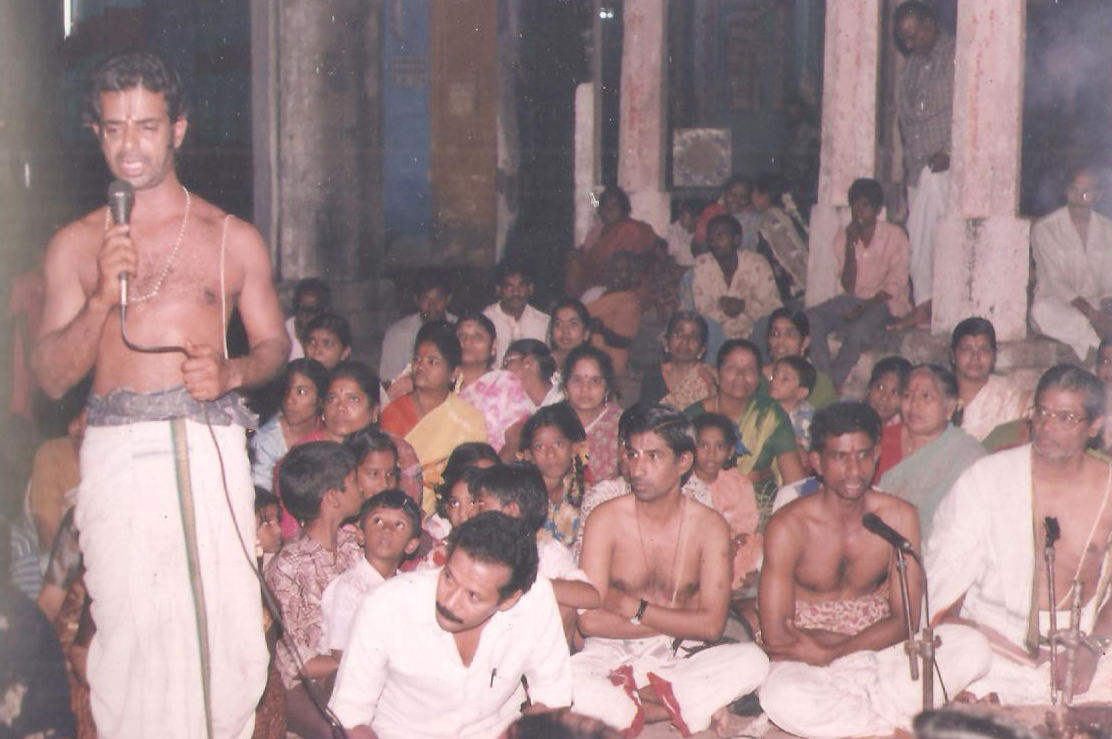 this is a religious photo